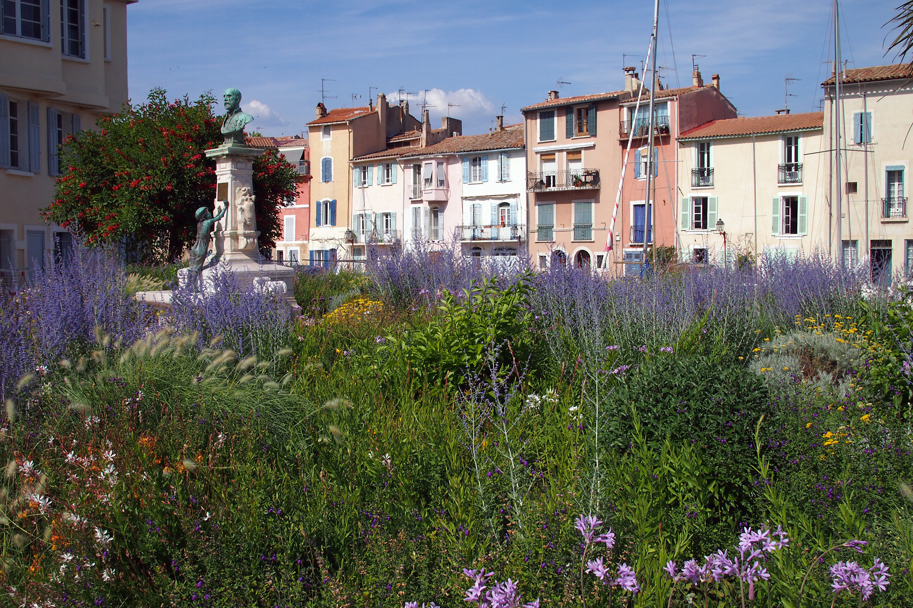 Martigues, Etienne Richaud